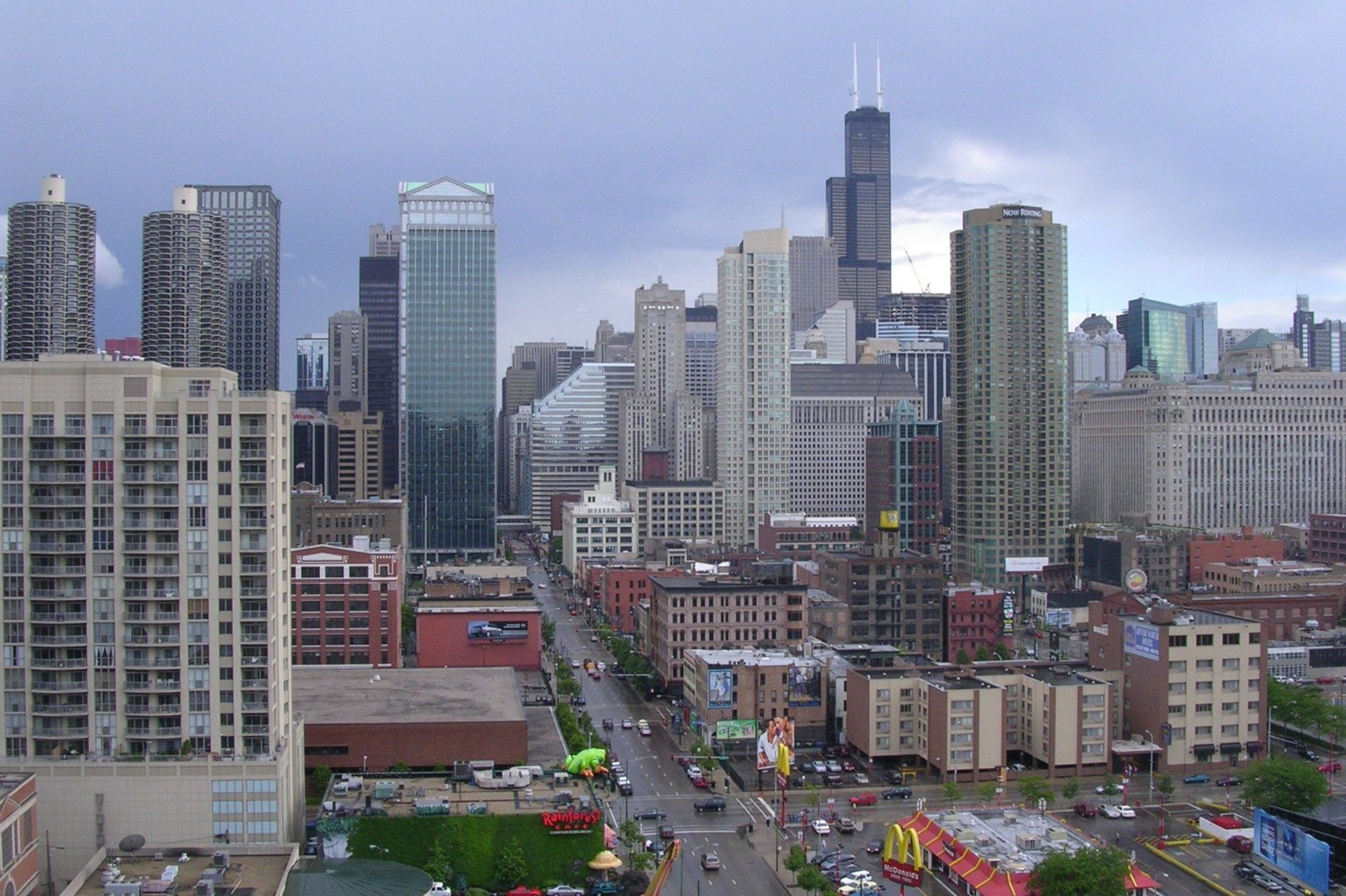 North Clark Street, Chicago Illinois